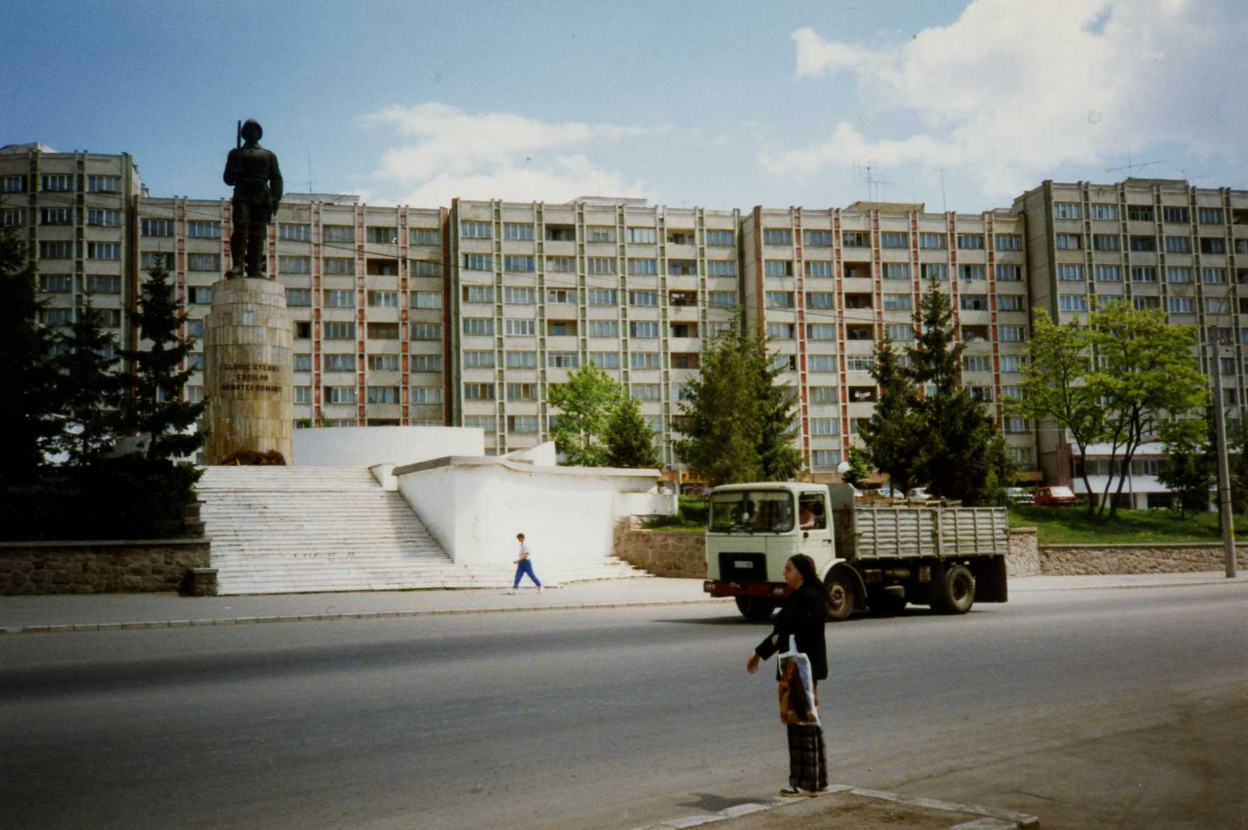 A Roman Diesel truck next to a military monument in Sfântu Gheorghe.